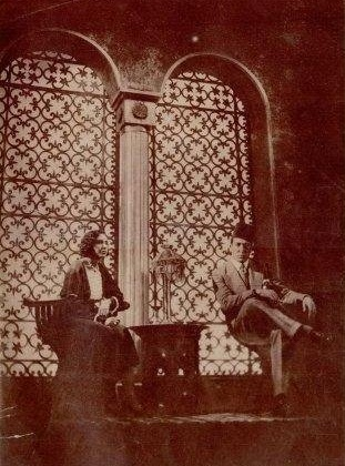 Ewlad Elzawat (sons of notables), first Spoken Egyptian movie, produced in 1932